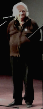 Actor Lou Castel at a screening of the spaghetti western "A bullet for the general" ("Quien Sabe ?") at the Cinémathèque française (Paris film museum).